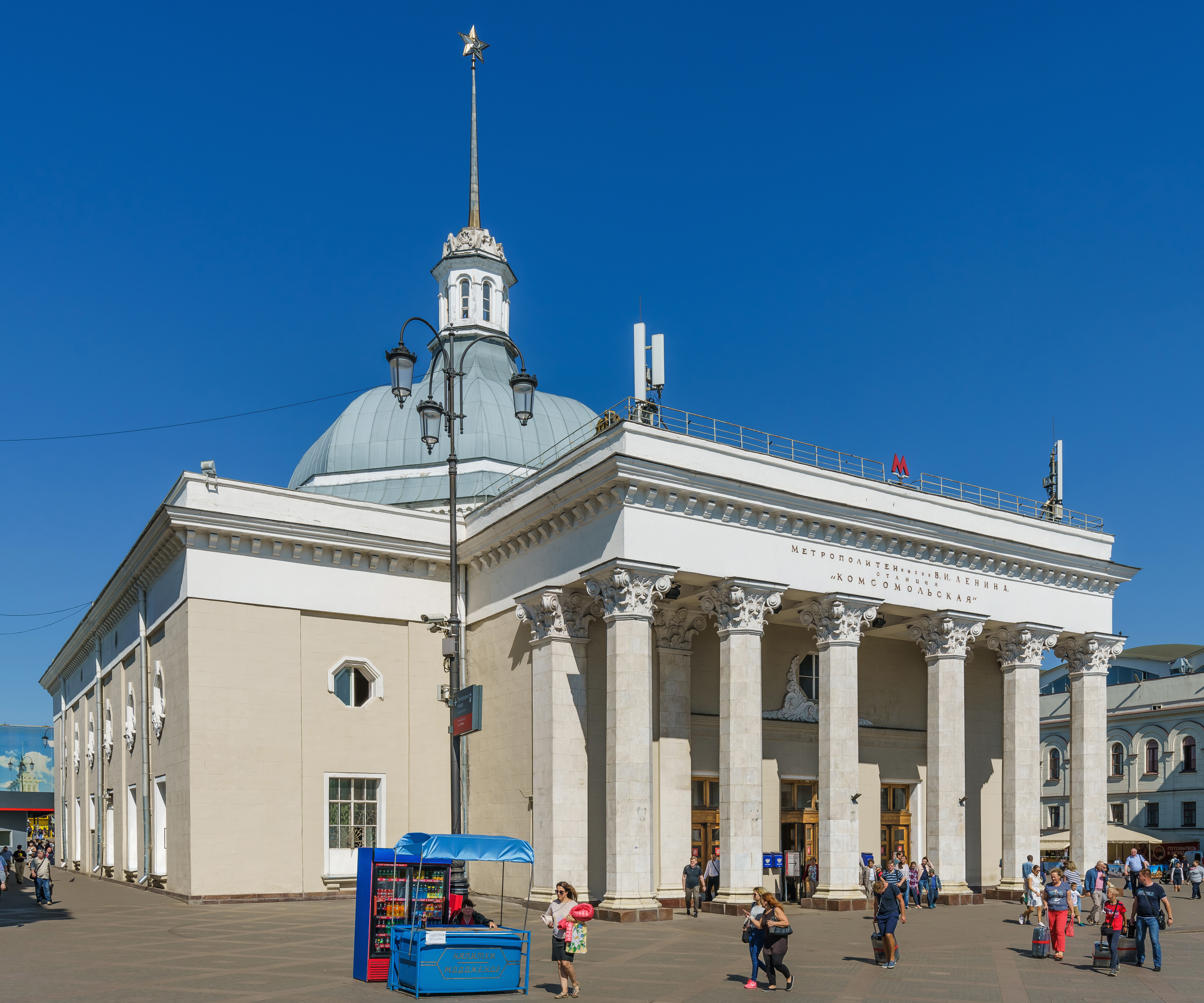 Entrance and exit (today exit only) pavilion of Komsomolskaya (KL+SL) metro station in Moscow, Russia